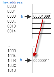 Diagram of pointer (computer science)